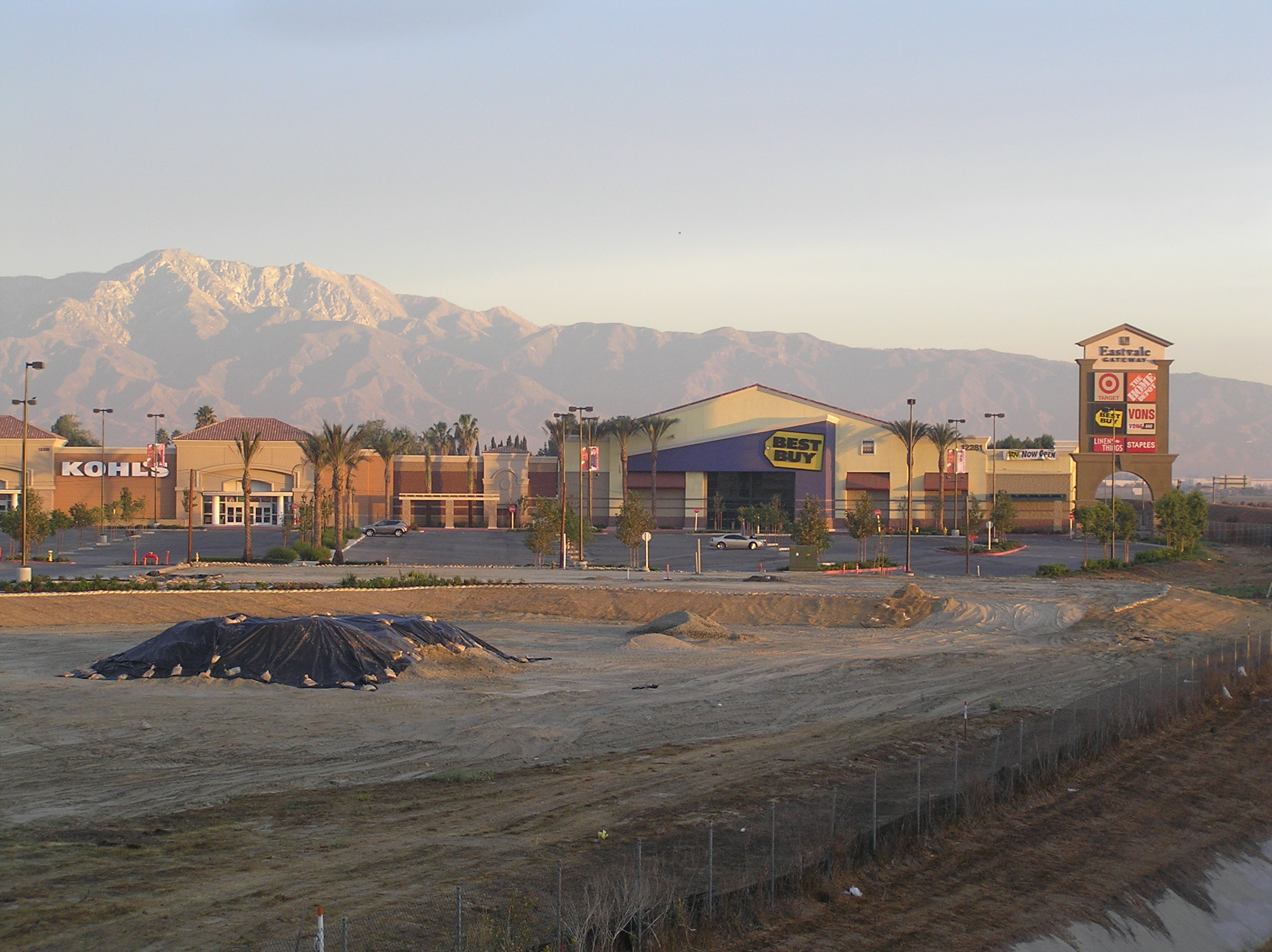 The commercial center in Eastvale.